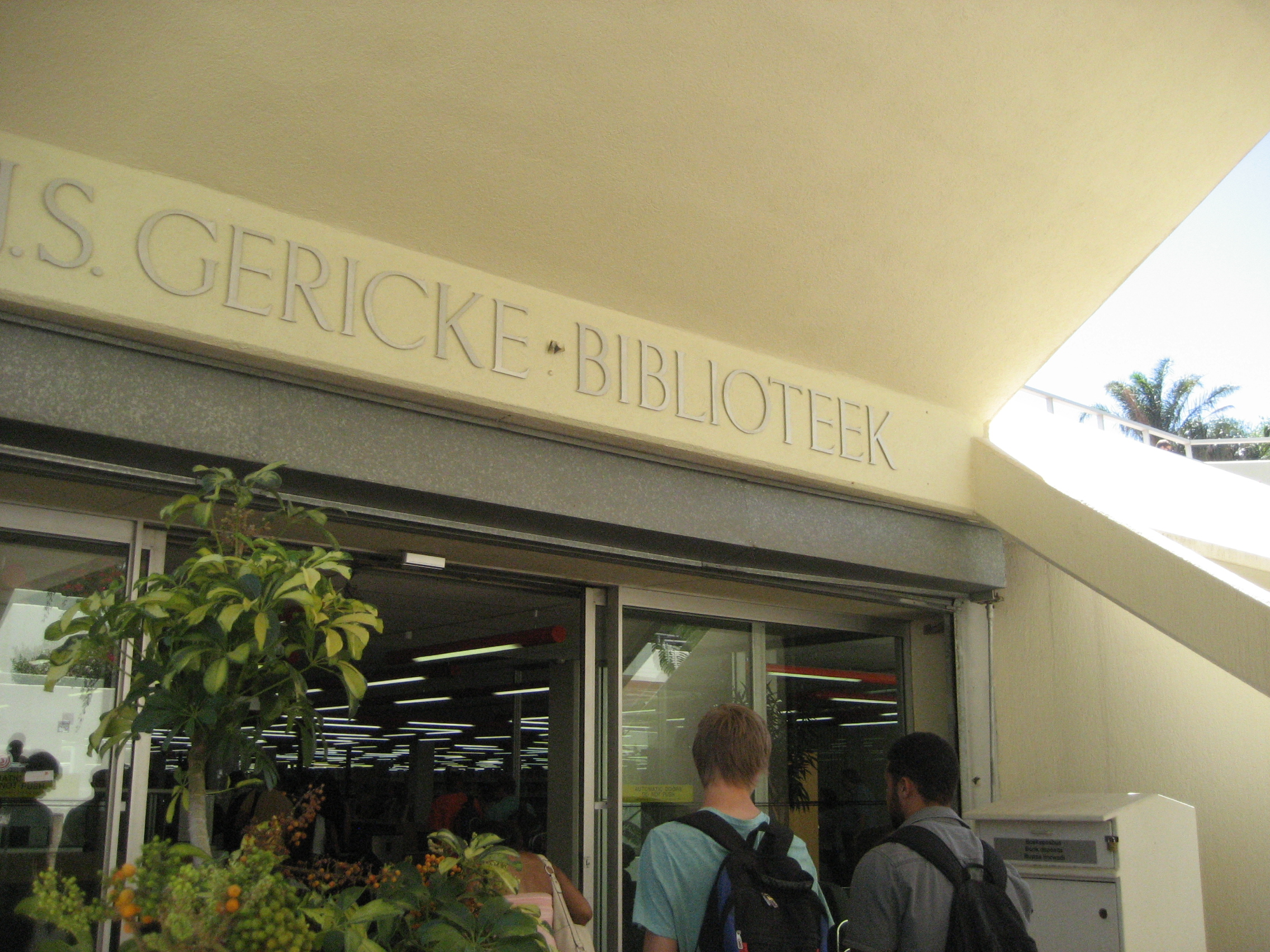 J.S. Gericke Library, Stellenbosch University (South Africa)